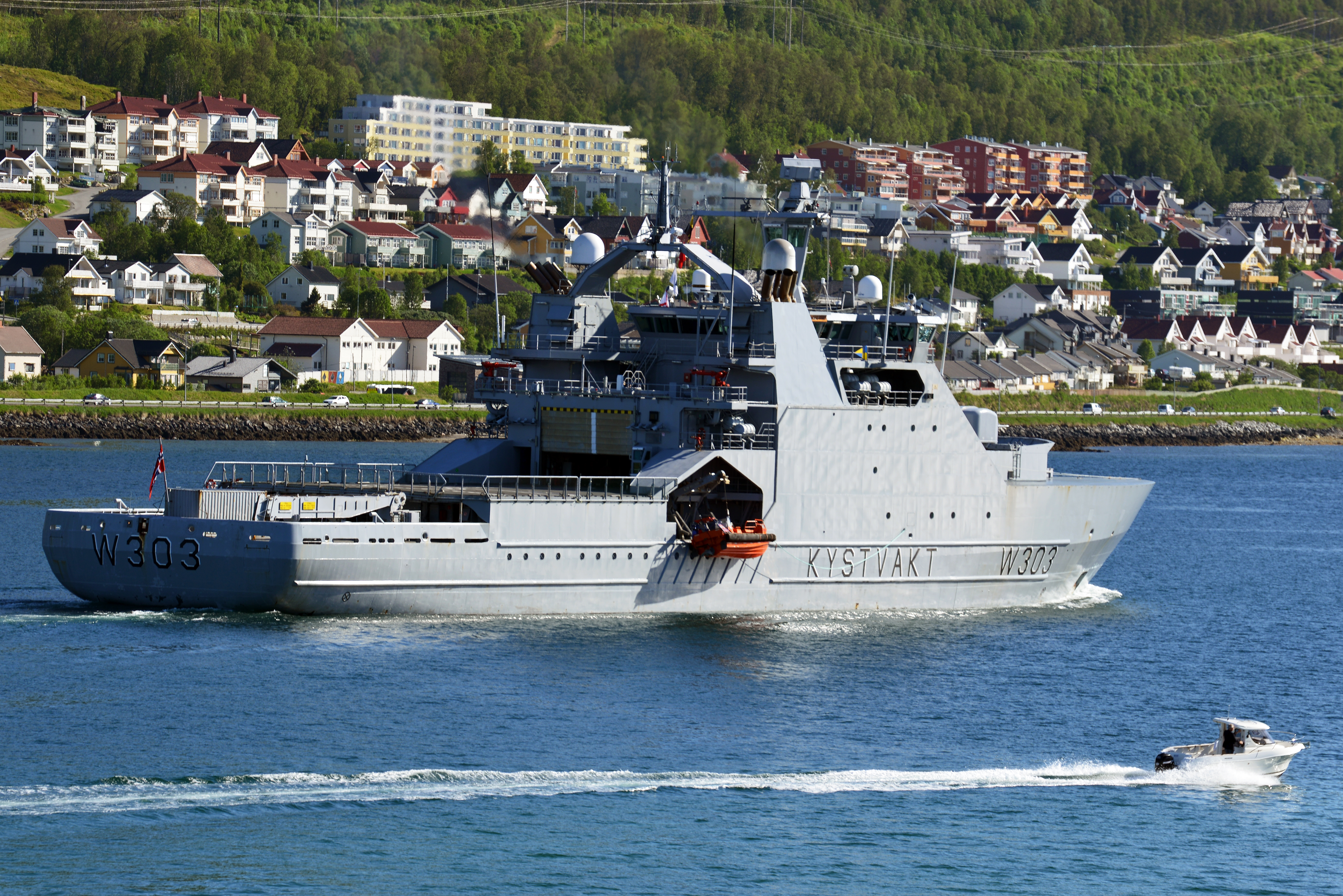 KV "Svalbard" (W 303) is a Norwegian coastguard vessel, ice-strengthened, and be able to operate in smooth ice at 1 meter thickness